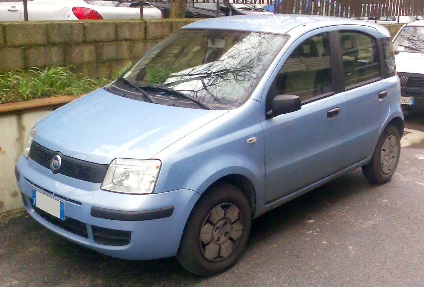 Fiat Panda Active.